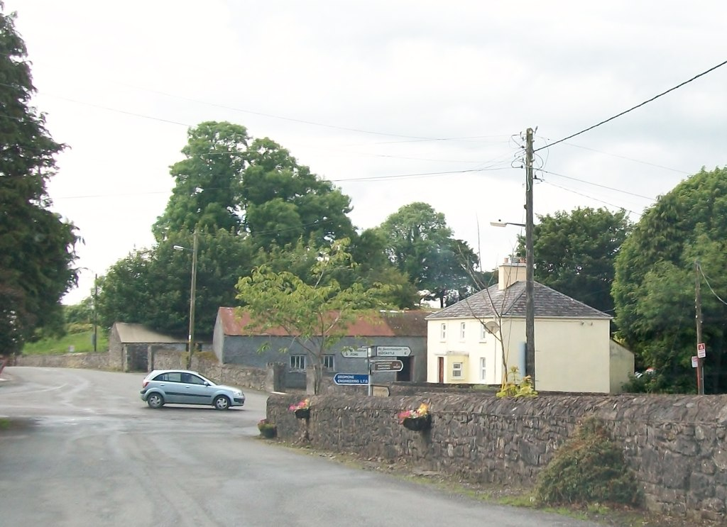 The Drumone Cross Roads